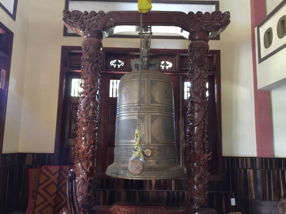 brass bell